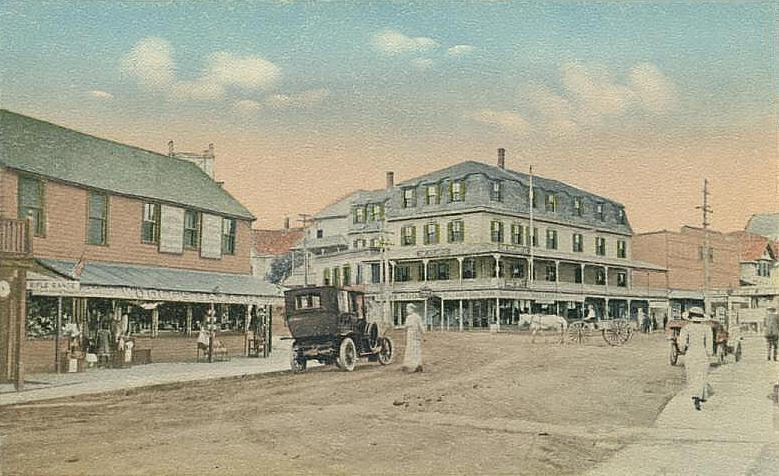 The Square at Short Sands Beach, York Beach, ME; from a c. 1915 postcard.